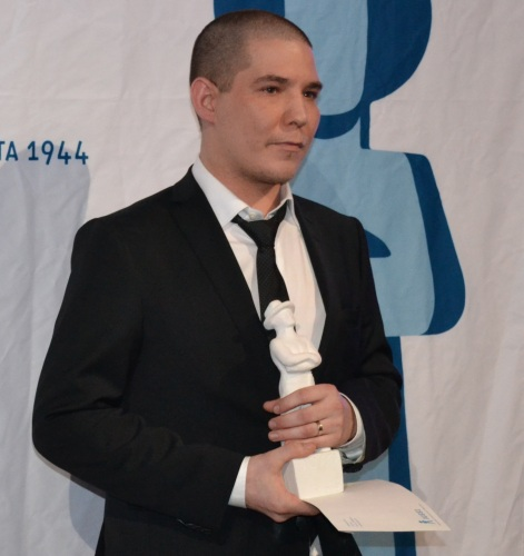 Jalmari Helander in 2010 Jussi Award.